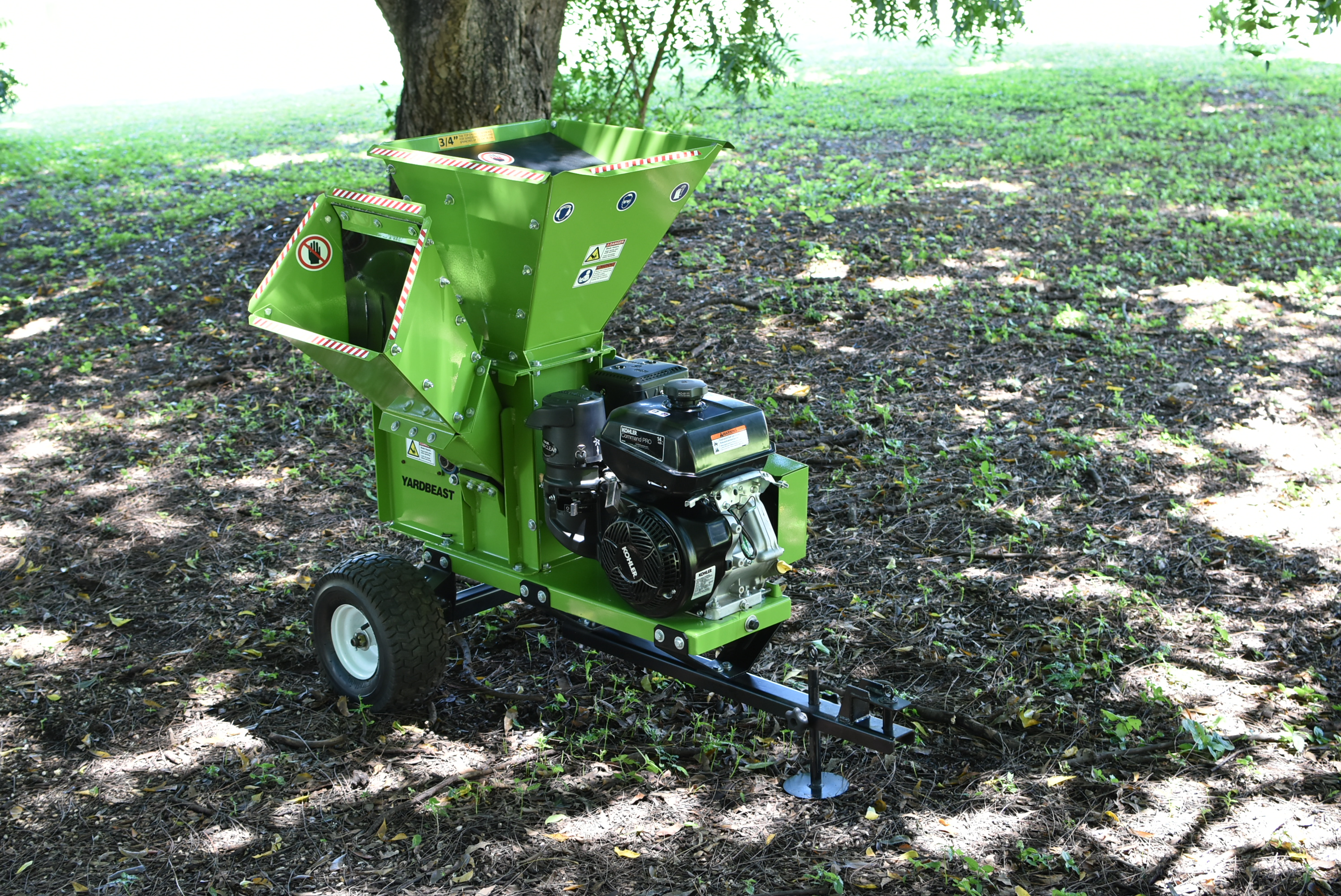 A Yardbeast 2090, showing a chipper shredder configuration. A chipper shredder is distinguished by a combination of a disk rotor with one or more blades, and a cluster of hammer or flails.